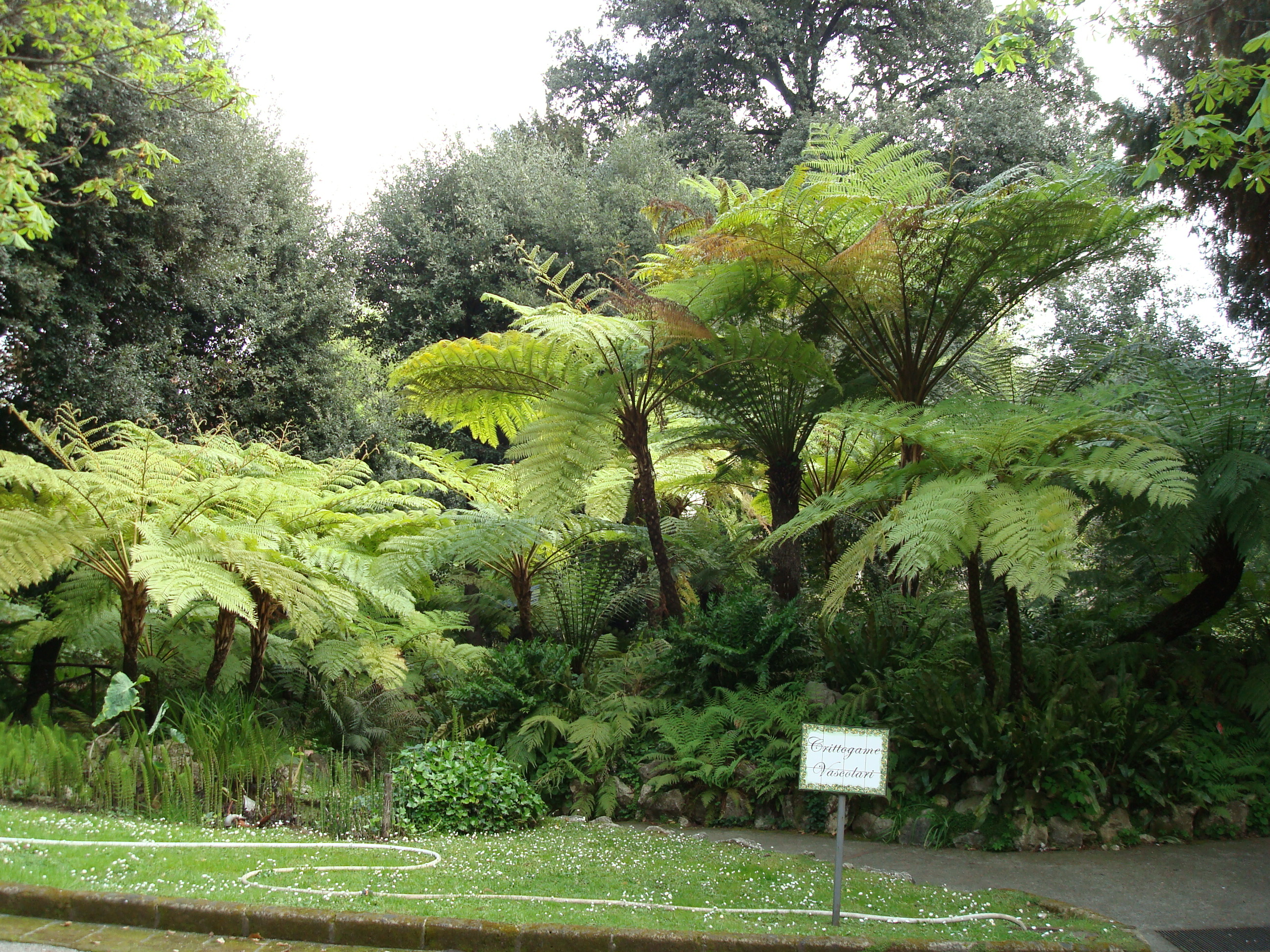 Vascular Cryptogamic collection in the Botanic Garden of Naples